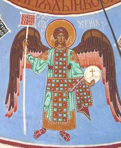 Fresco of Archangel Uriel at the Assumption Church in Lez'je-Sologubovka, St. Petersburg Region, Russia.